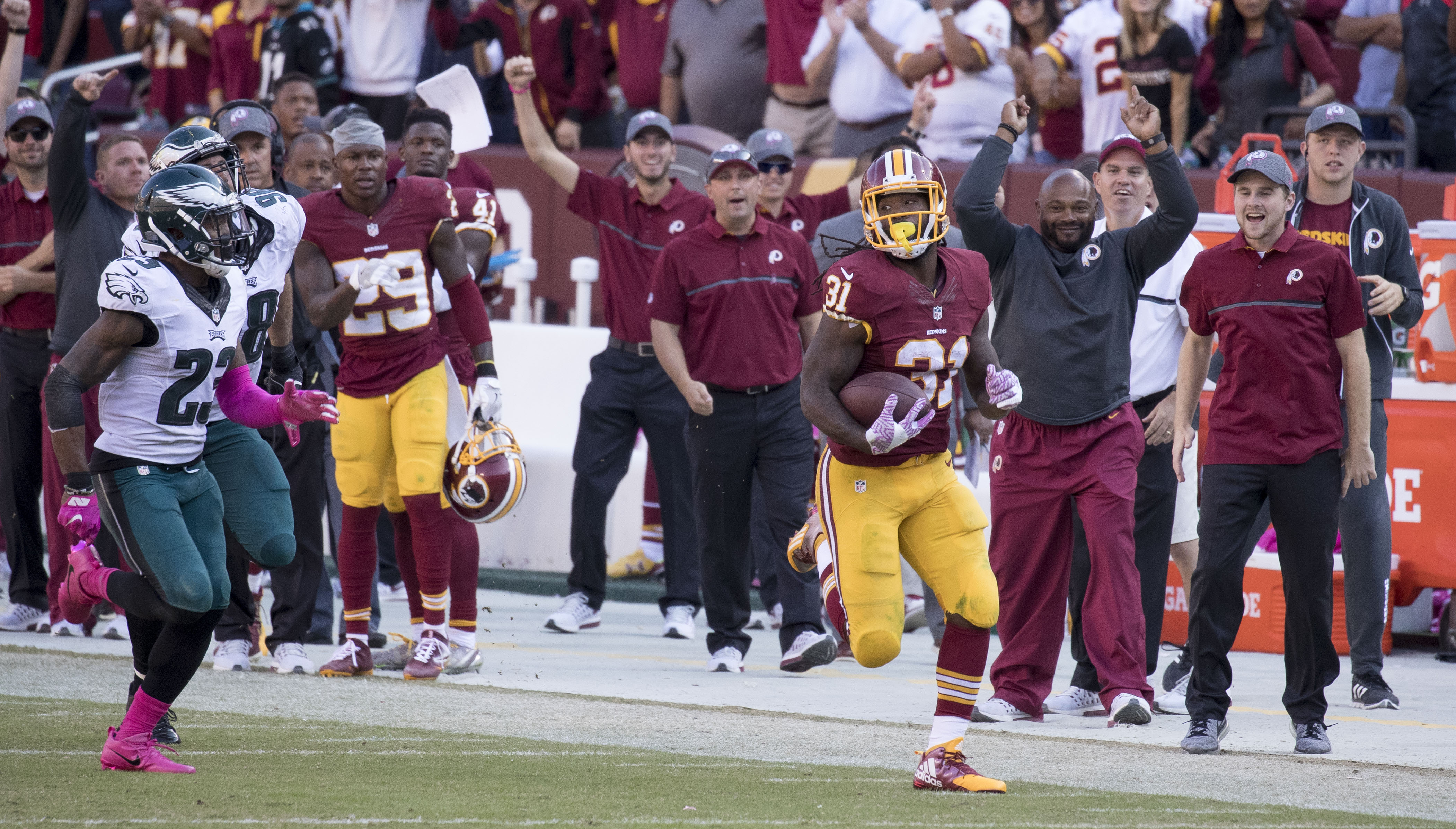 Running back Matt Jones of the Washington Redskins carries the ball in a game against the Philadelphia Eagles at FedExField on October 16, 2016 in Landover, Maryland.